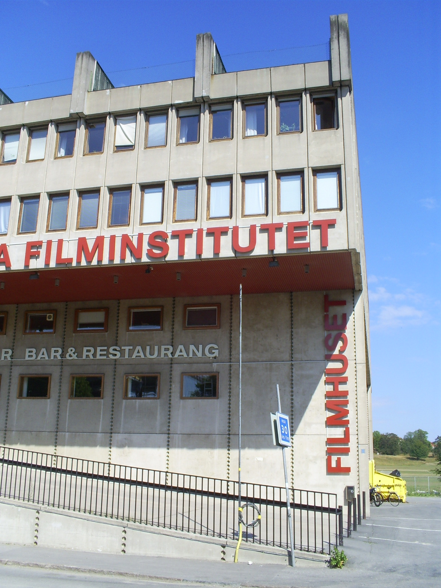 Entrance at the eastern corner of the 140 meters long studio and office building of the Swedish Film Institute in Östermalm, Stockholm, Sweden